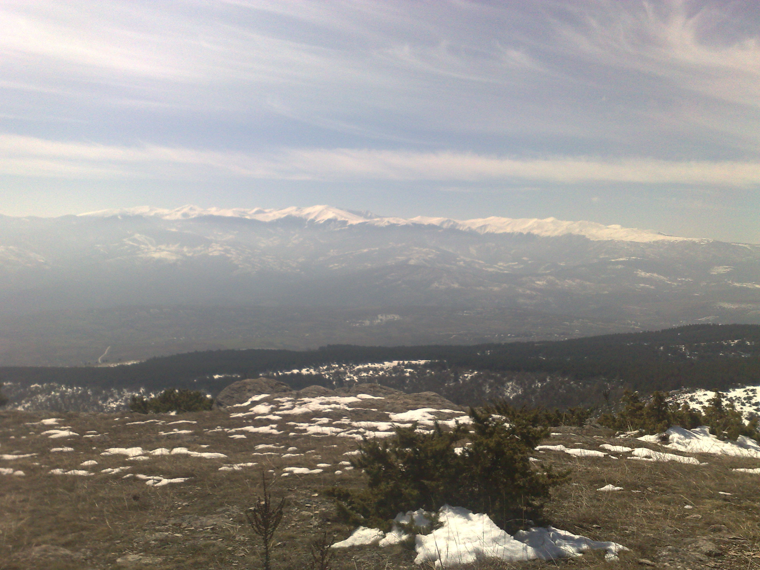 View to Karadzica mountain from Vodno, Macedonia